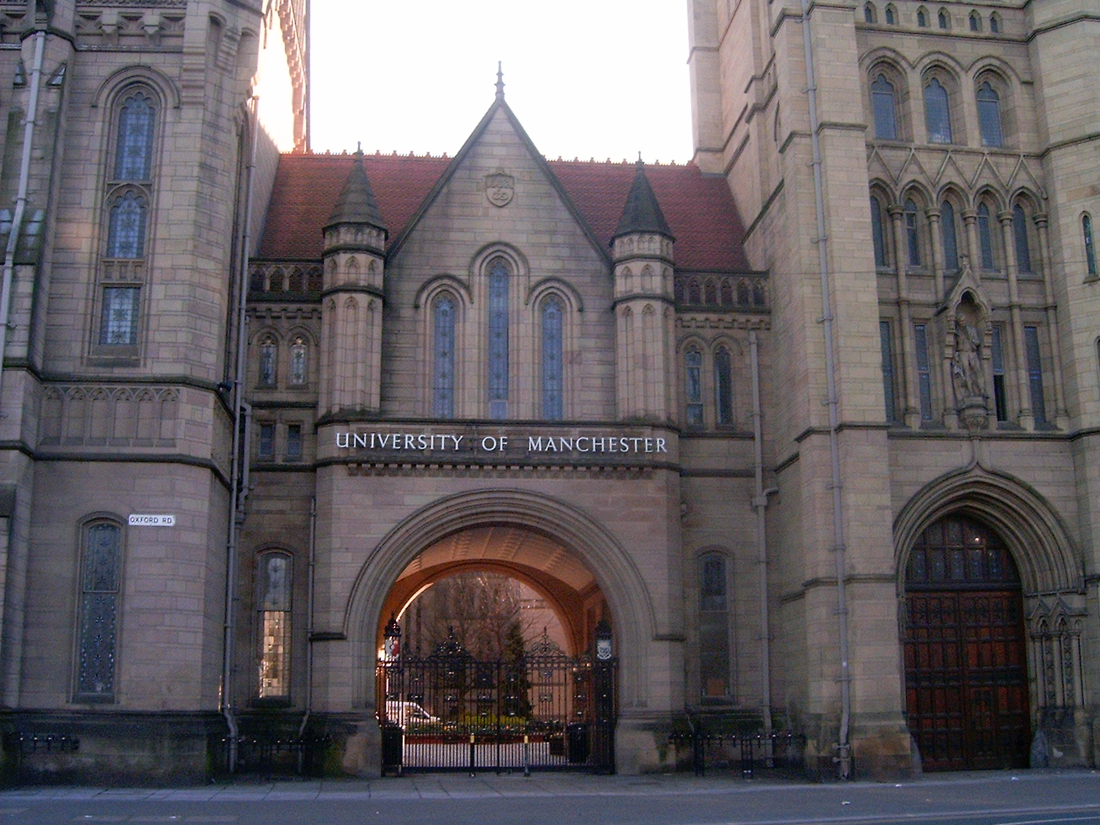 University of Manchester